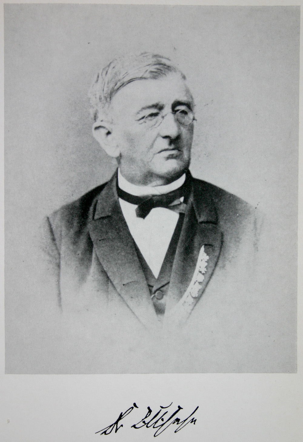 Christoph Ulrich Hahn (1805-1881), German school teacher, pastor and prominent figure in the development of deaconry